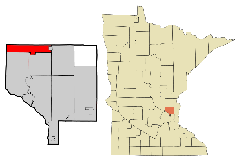 This map shows the incorporated and unincorporated areas in Anoka County, highlighting St. Francis in red. This file has been updated to reflect the recent incorporation of new municipalities.